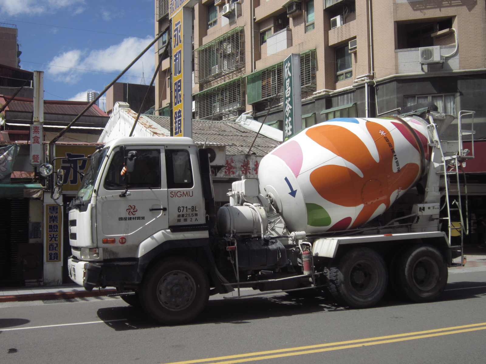 Goldsun Building Materials concrete mixer truck 671-BL